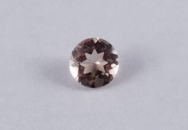 Axinite, 1.02ct, Brazil